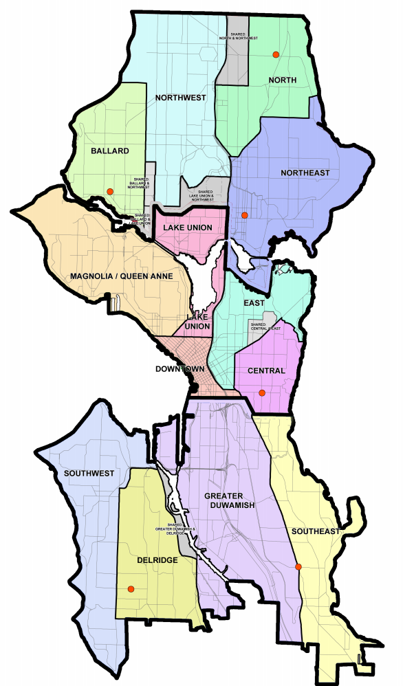 Map of Seattle, WA with divisions showing where different districts are.